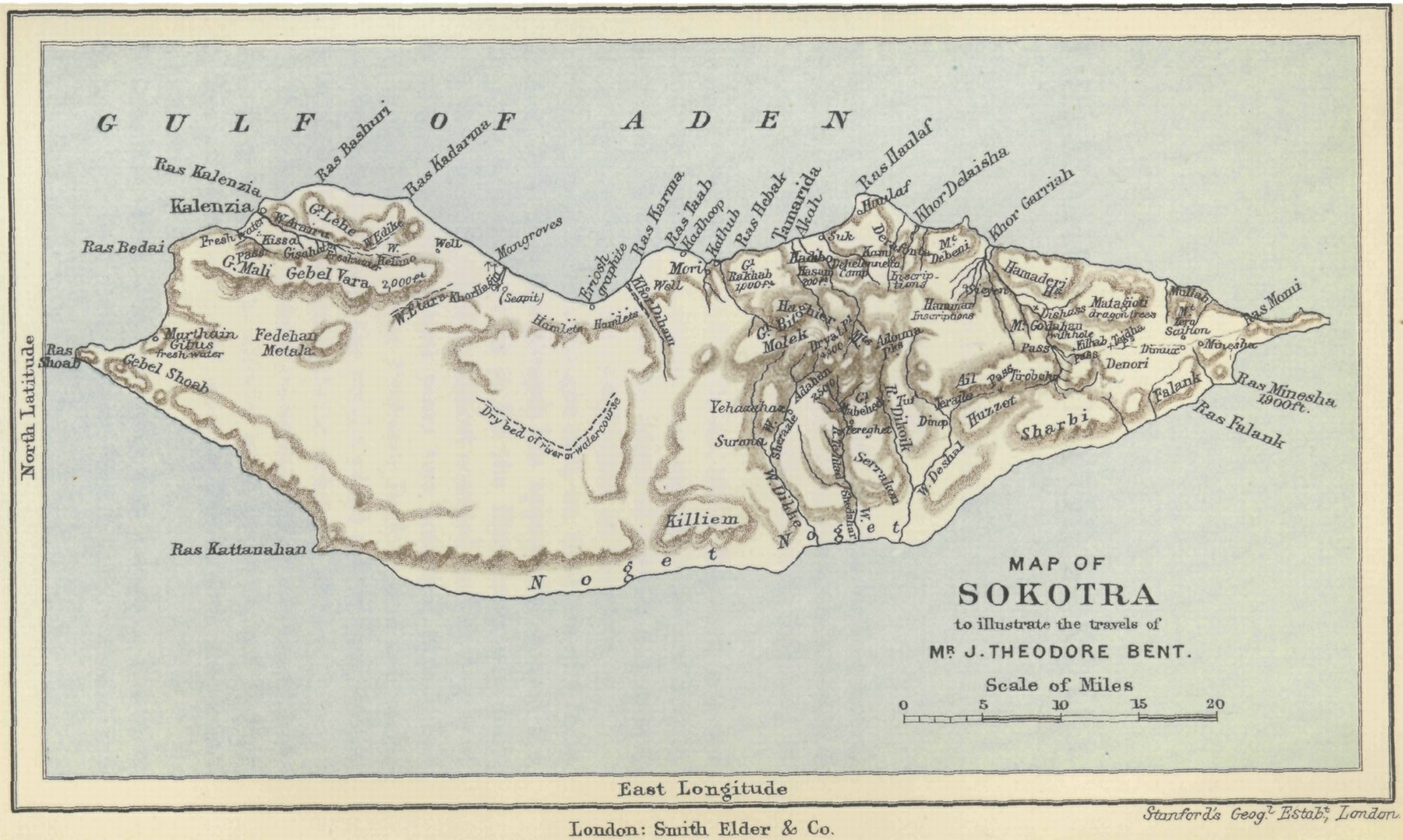 Map of Sokotra to illustrate the explorations of Theodore Bent